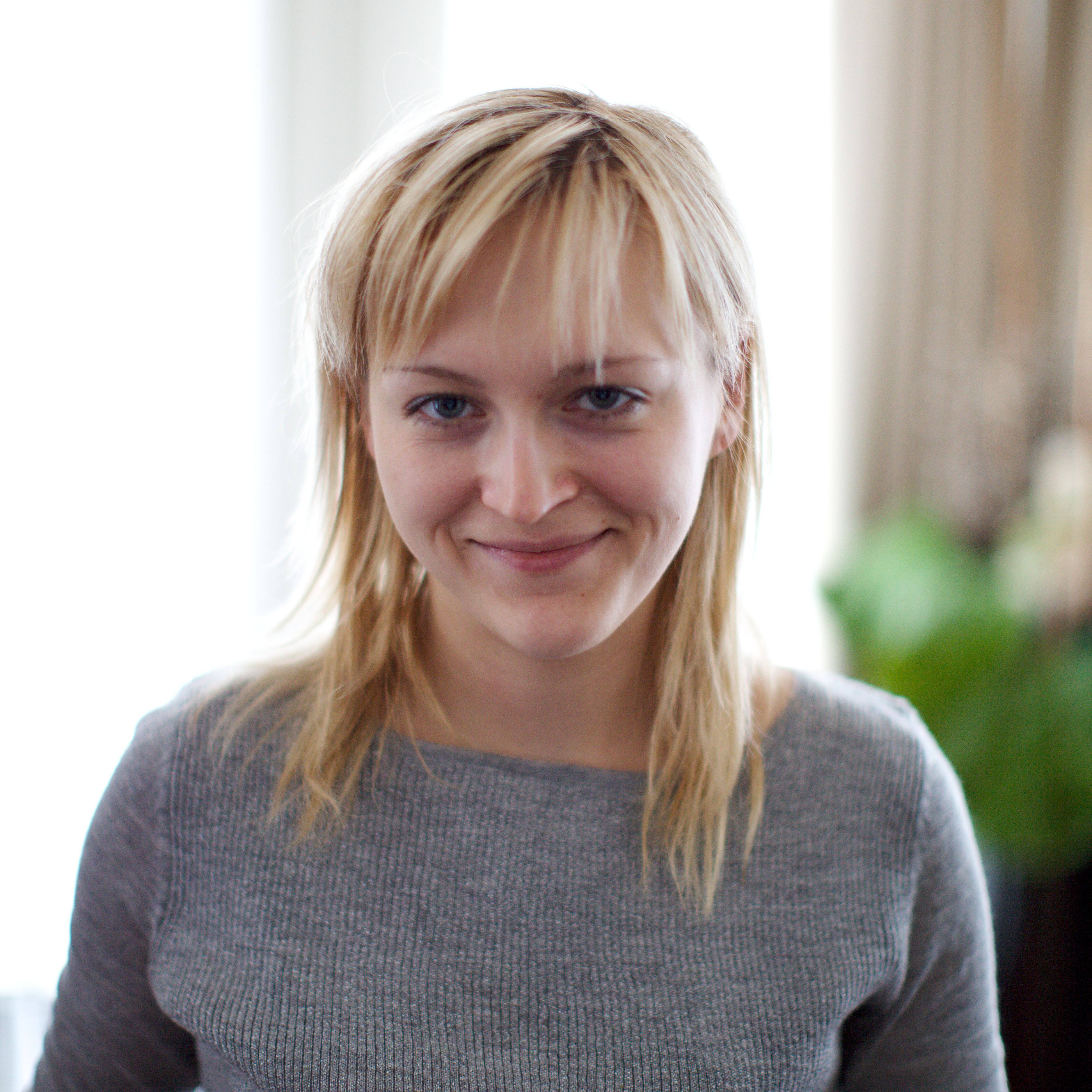 Anna Ushenina (cropped)